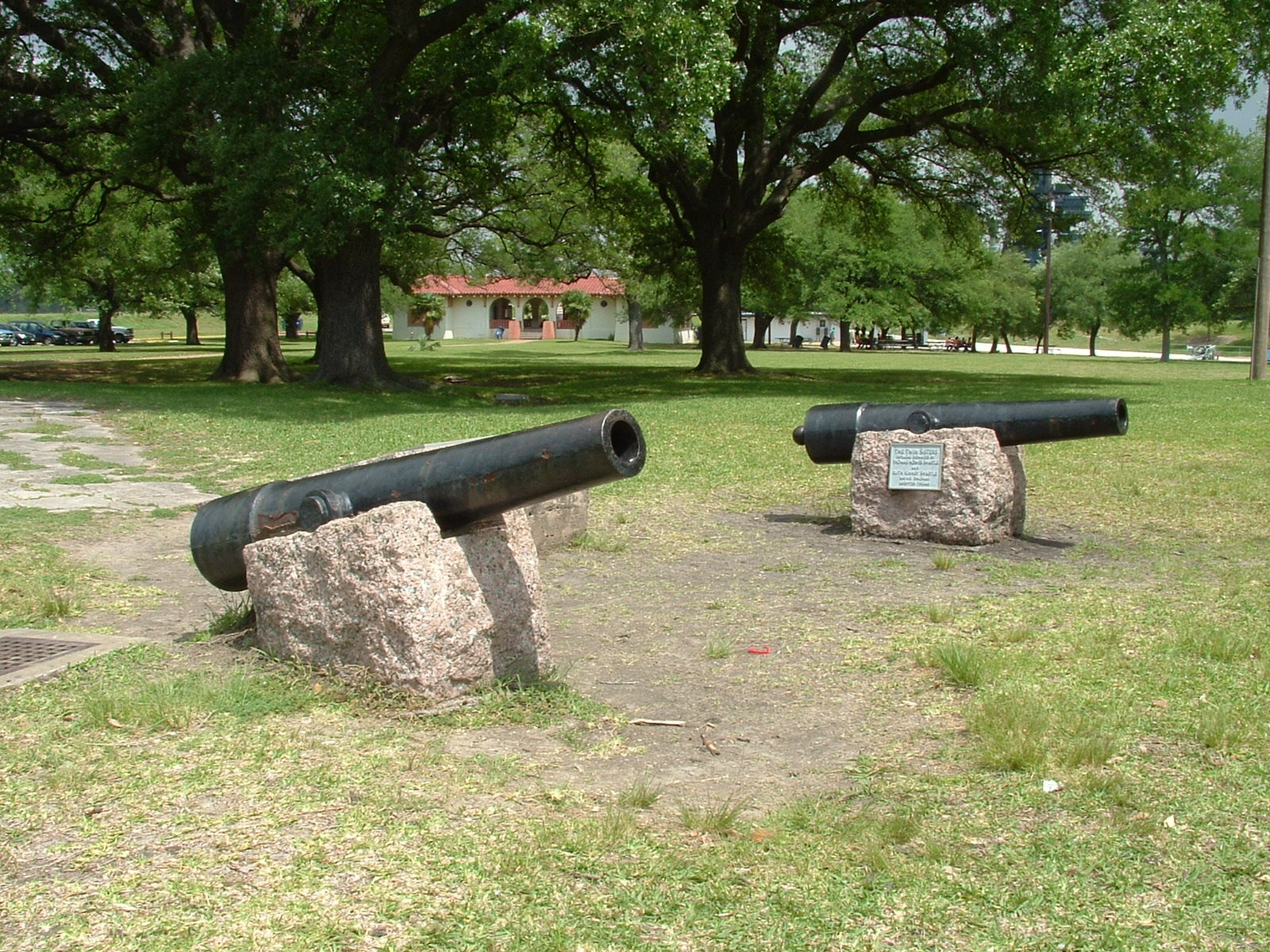 "Twin Sisters", cannons used in the Battle of San Jacinto, Texas, 1836